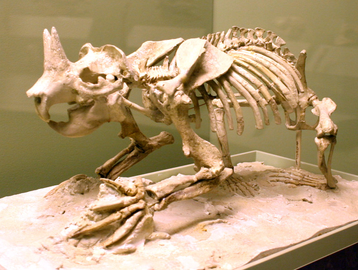 Ceratogaulus hatcheri skeleton, Museum of Natural History Washington, D.C. USA.